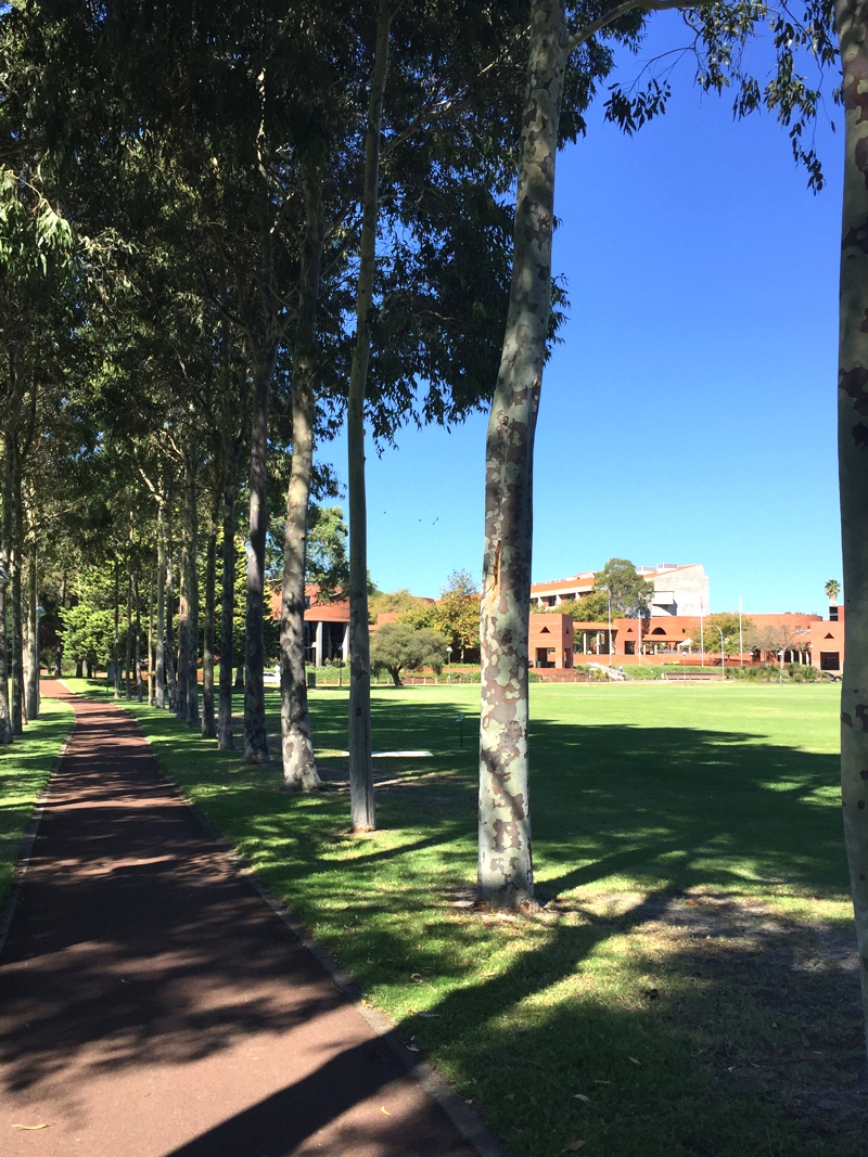 Photo of Curtin University walkway